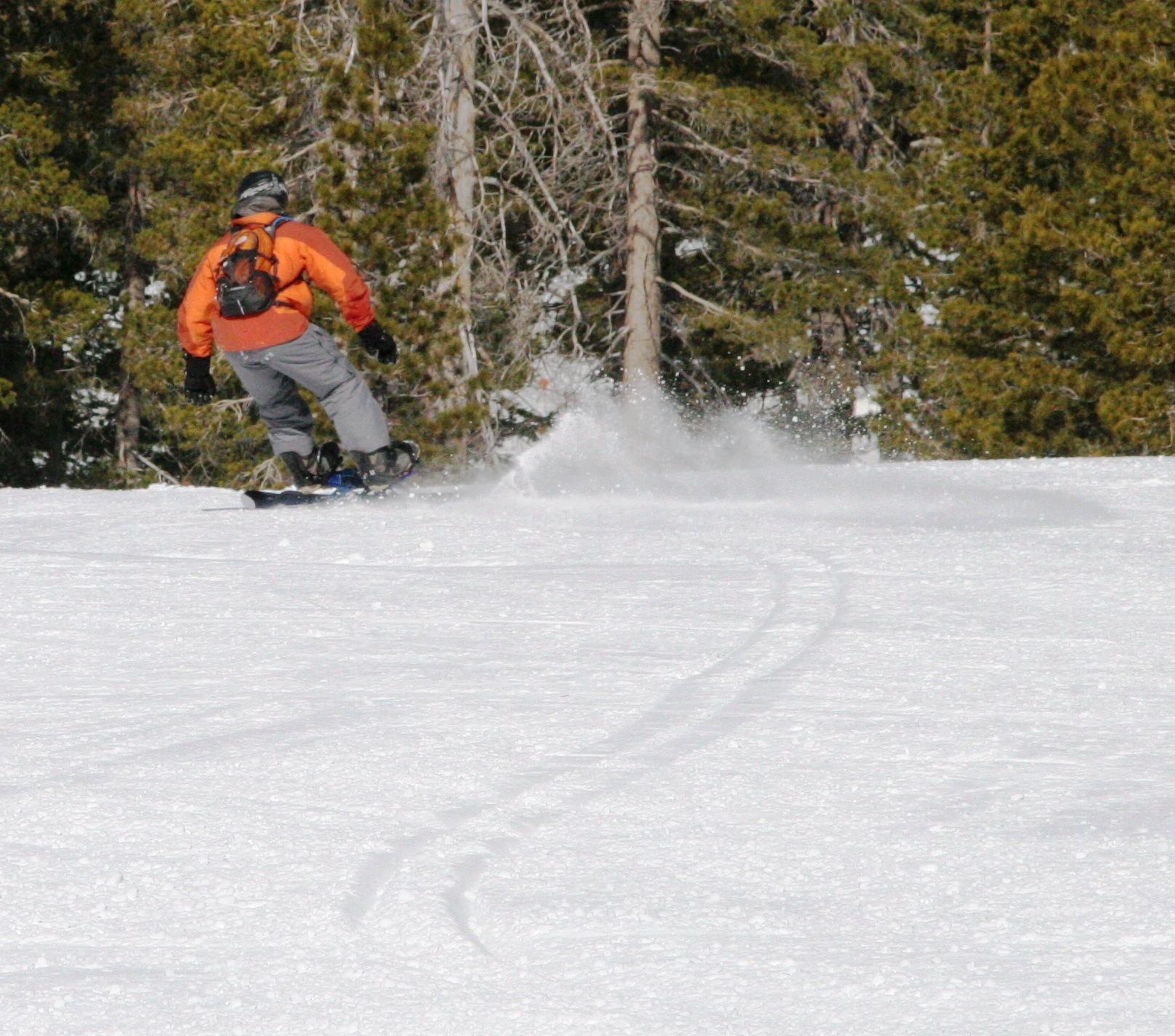 Snowboarder riding a Deuce Snowboards DES, with dual S-curve snowboarding tracks.